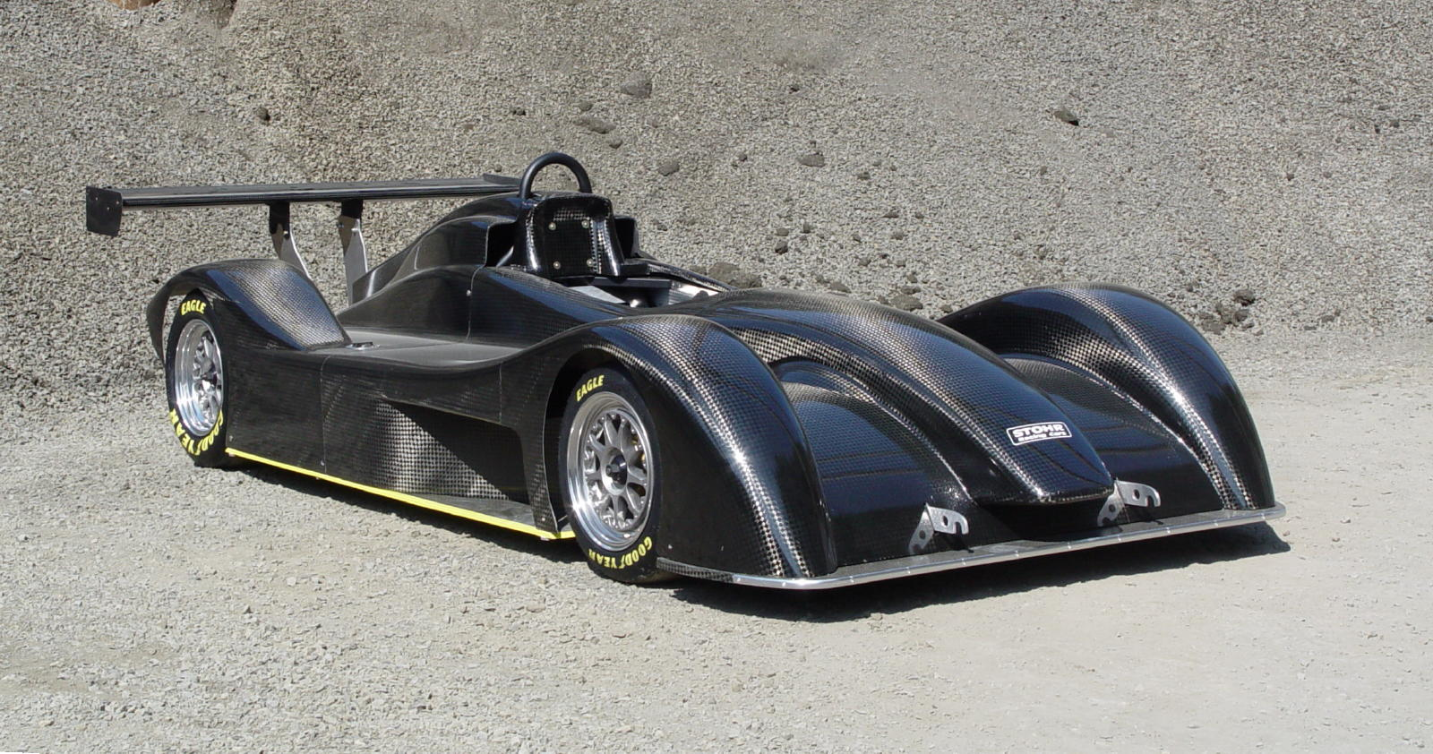 The first carbon-fiber bodied Stohr DSR built in 2003 for Richard Steranka.